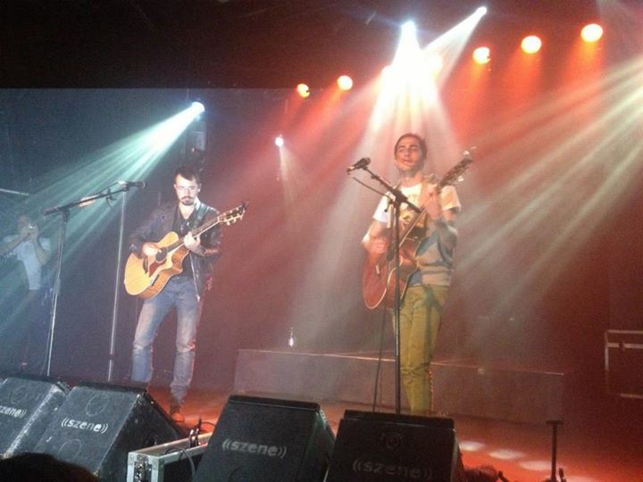 nothing